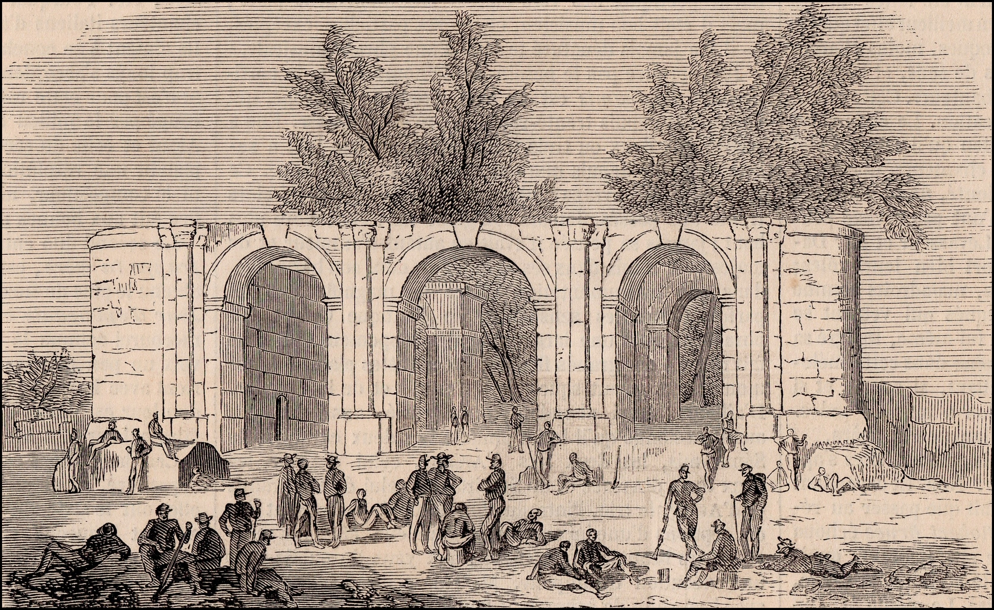 Bagheria (Sicily)